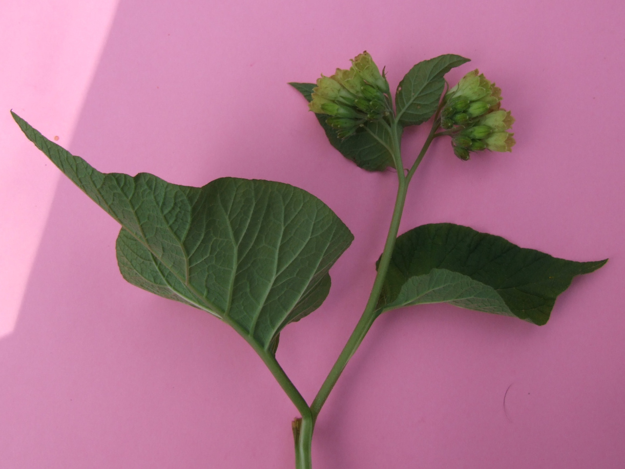 Symphytum cordatum (habitat:Pieniny)